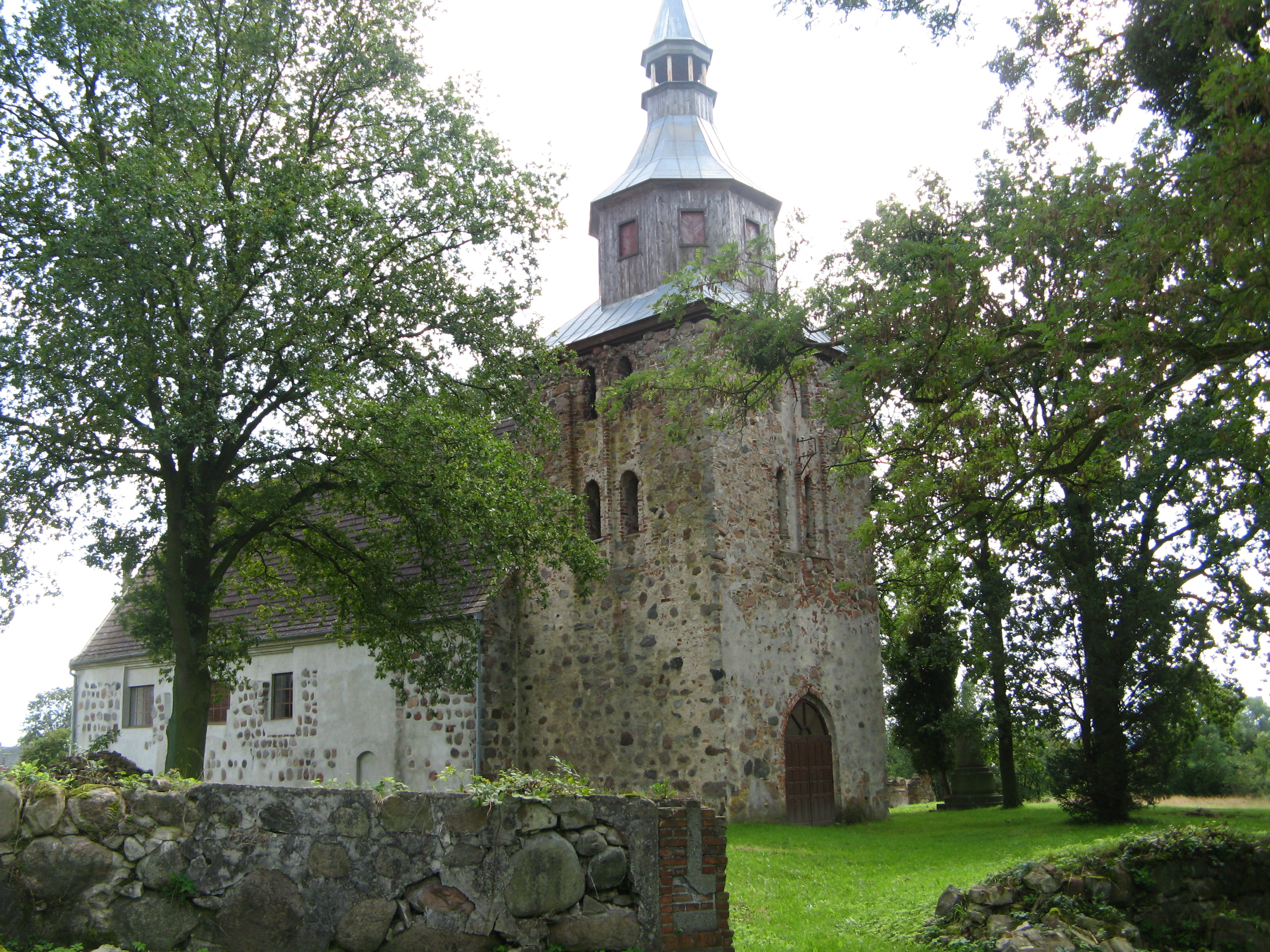 Christ the King church in Suchanówko (before 1945 german Schwanenbeck)